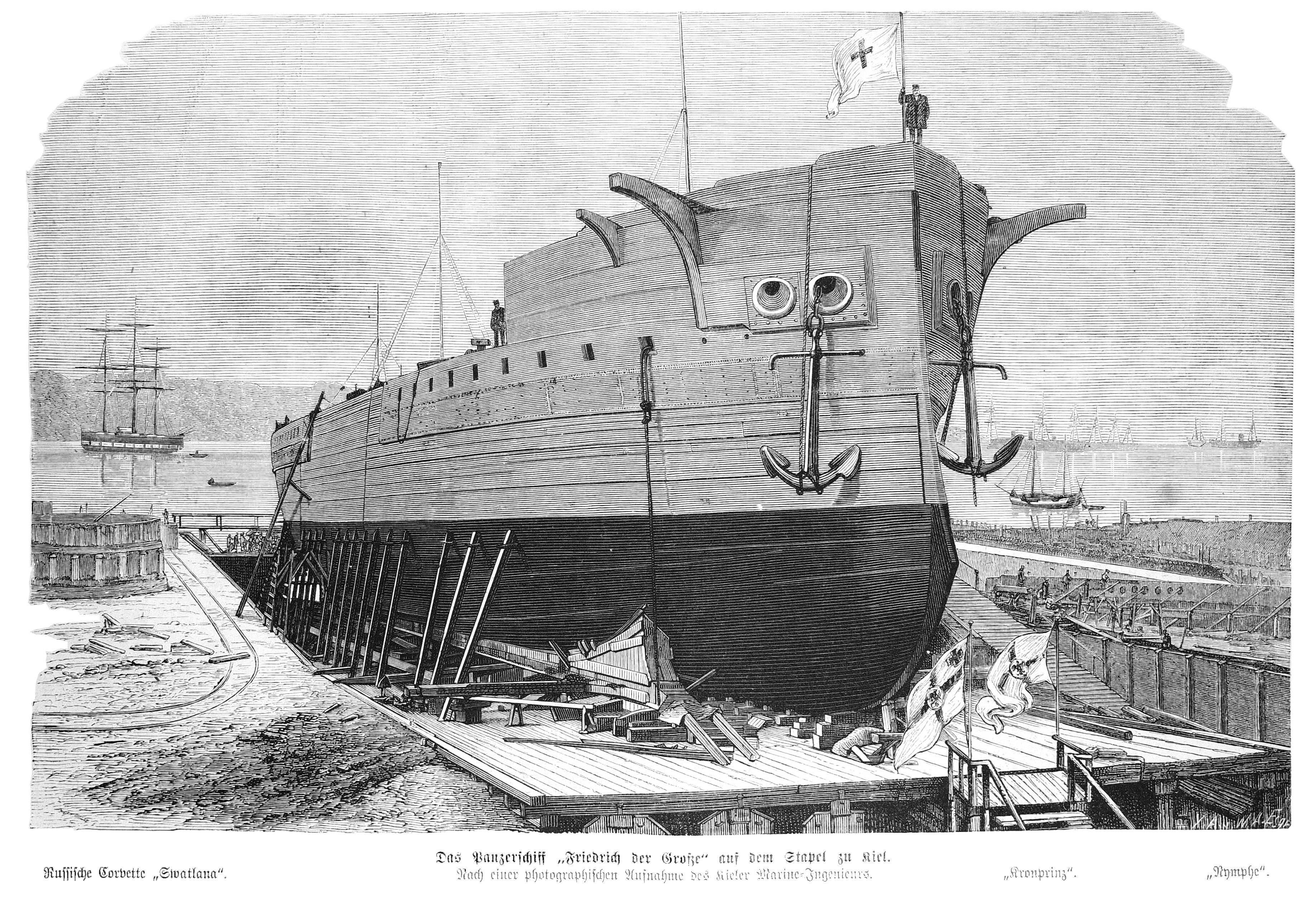 Image from page 715 of book Die Gartenlaube, 1874.